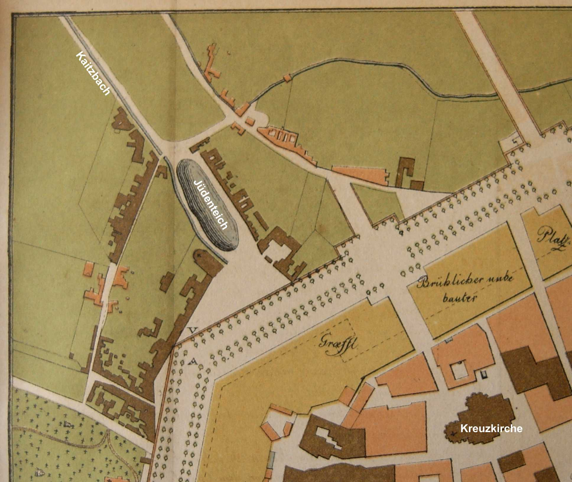 plan of project Residenzstadt Dresden (François de Cuvilliés), app. 1759; Detail of Seevorstadt